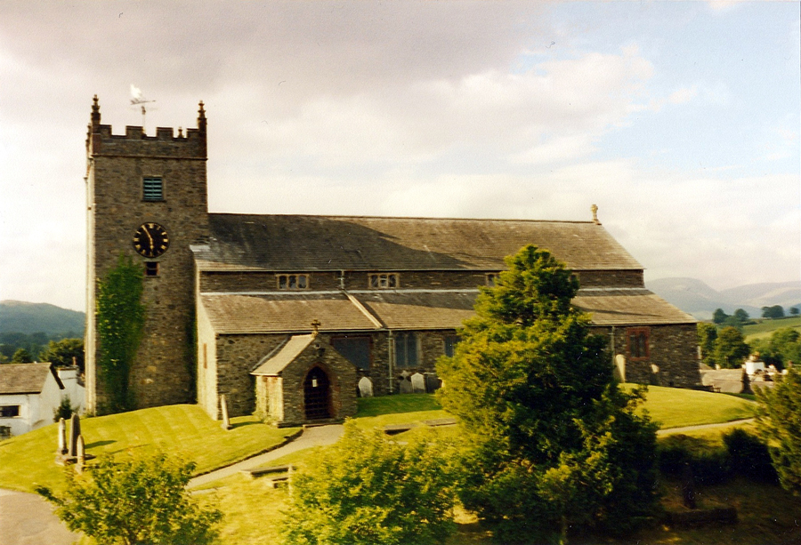 St Michael and All Angels Parish Church, Hawkshead